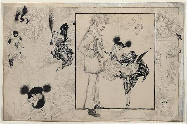 Uncle Sam's Girl Shower - illustration by Nell Brinkley (1886–1944).